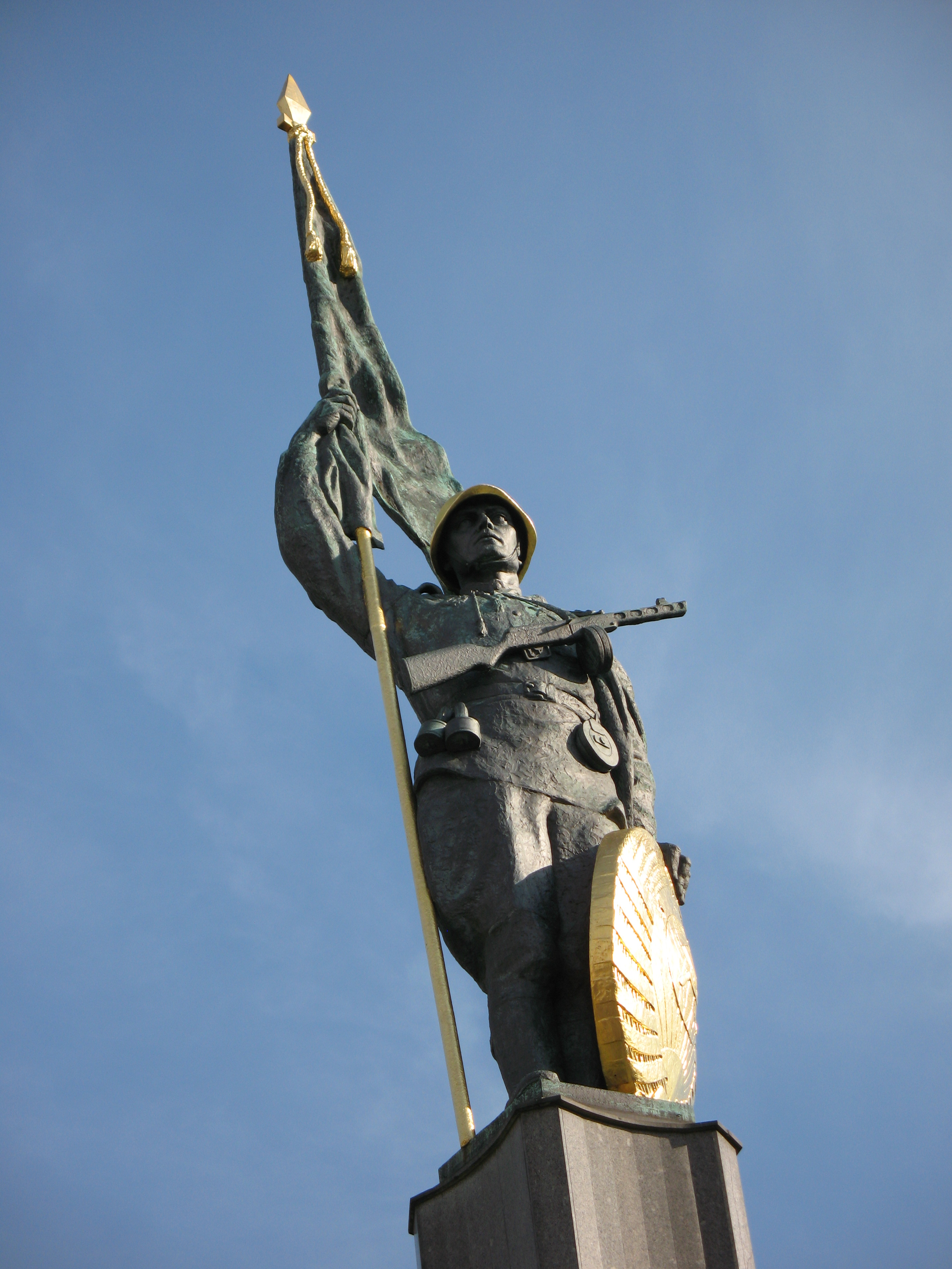 Austria, Vienna, Schwarzenbergplatz, Heroes Monument of the Red Army